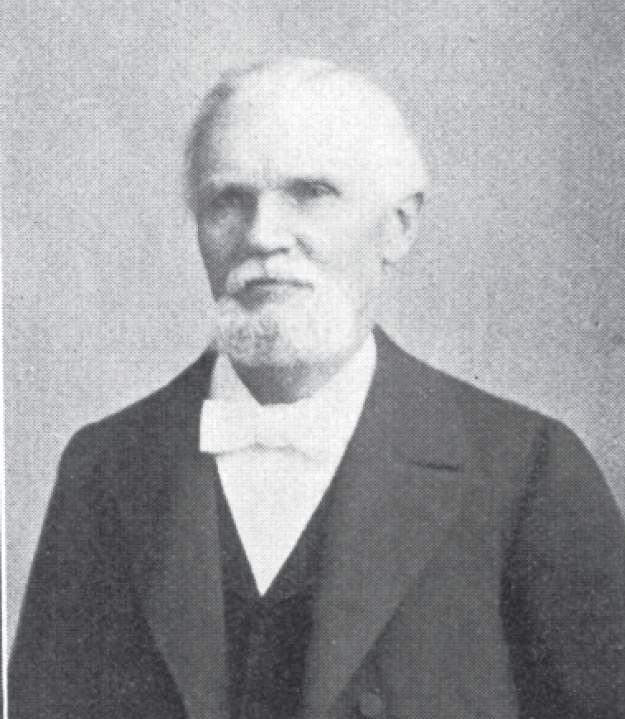 Karl G. Maeser an educator and a member of The Church of Jesus Christ of Latter-day Saints (LDS Church) who served 16 years as principal of Brigham Young Academy, which became Brigham Young University (BYU) in 1903.